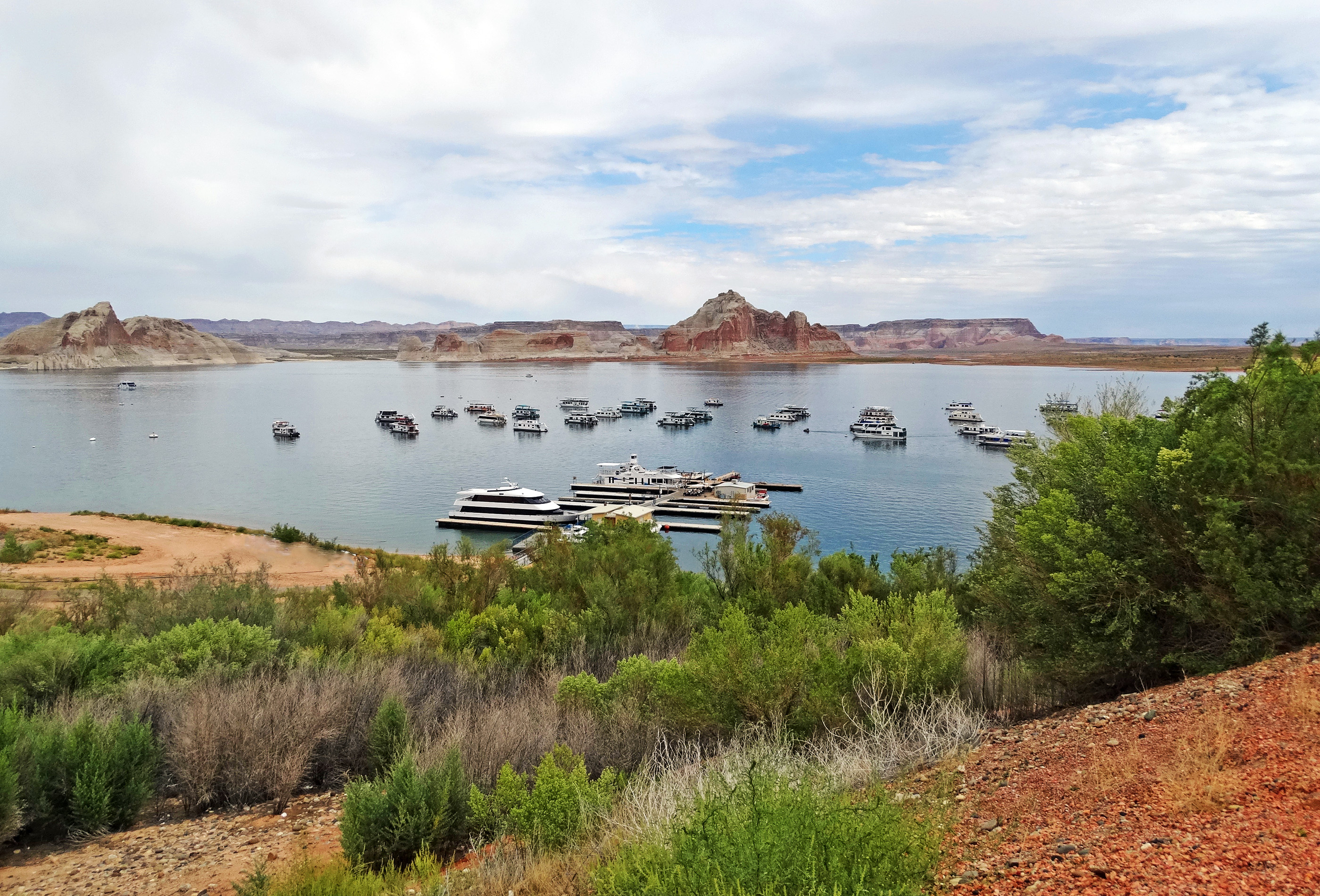 (1 in a multiple picture album) We had hoped to take a cruise to some of the canyons but found that Lake Powell was more 'Pond Powell". The water lever was at 48%. Still I found a couple shots to take.